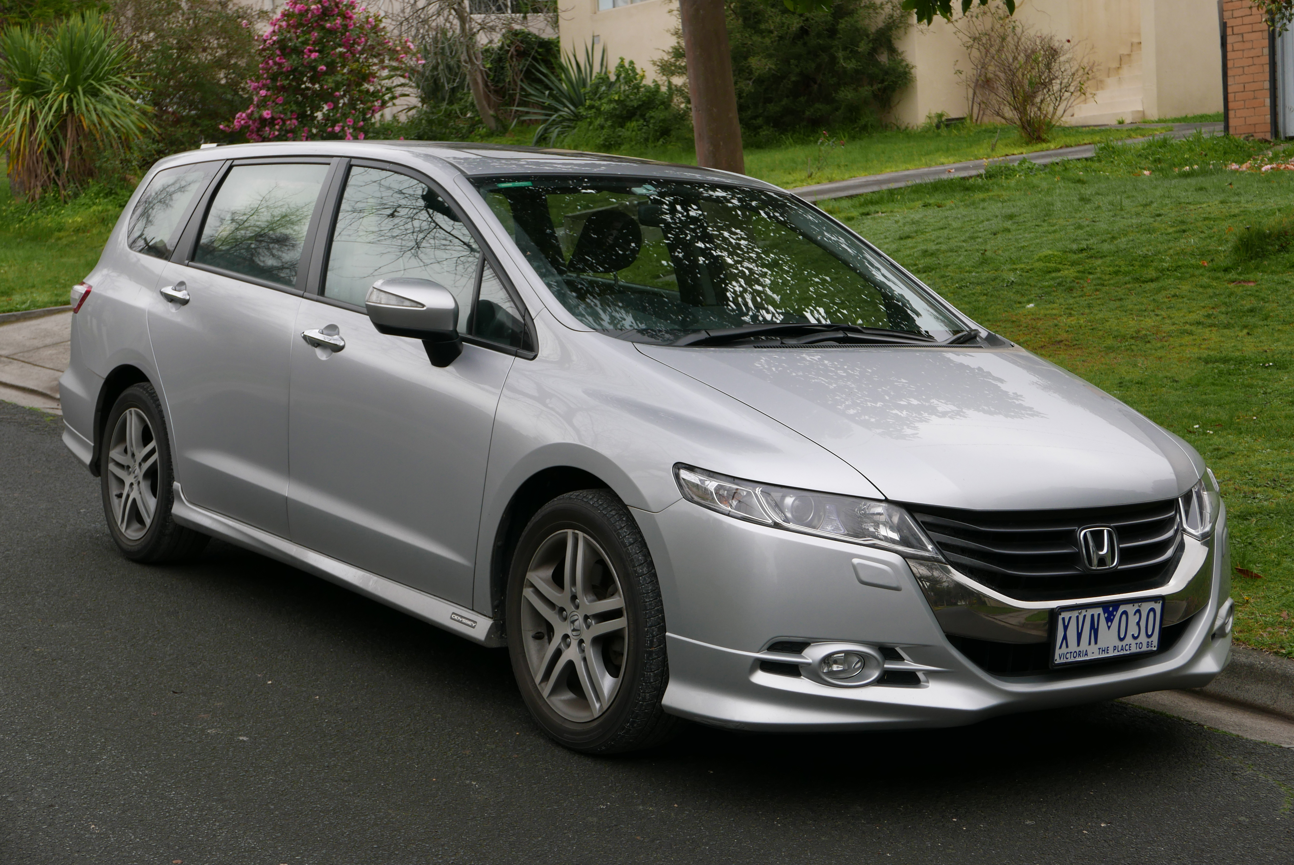 2010 Honda Odyssey (MY10) Luxury van. Photographed in Doncaster, Victoria, Australia. Vehicle registration enquiry resultsJurisdictionVictoriaRegistrationXVN030Chassis codeJHMRB3850AC200673Engine codeK24Z21350790Compliance date2010-04Year of manufacture2010